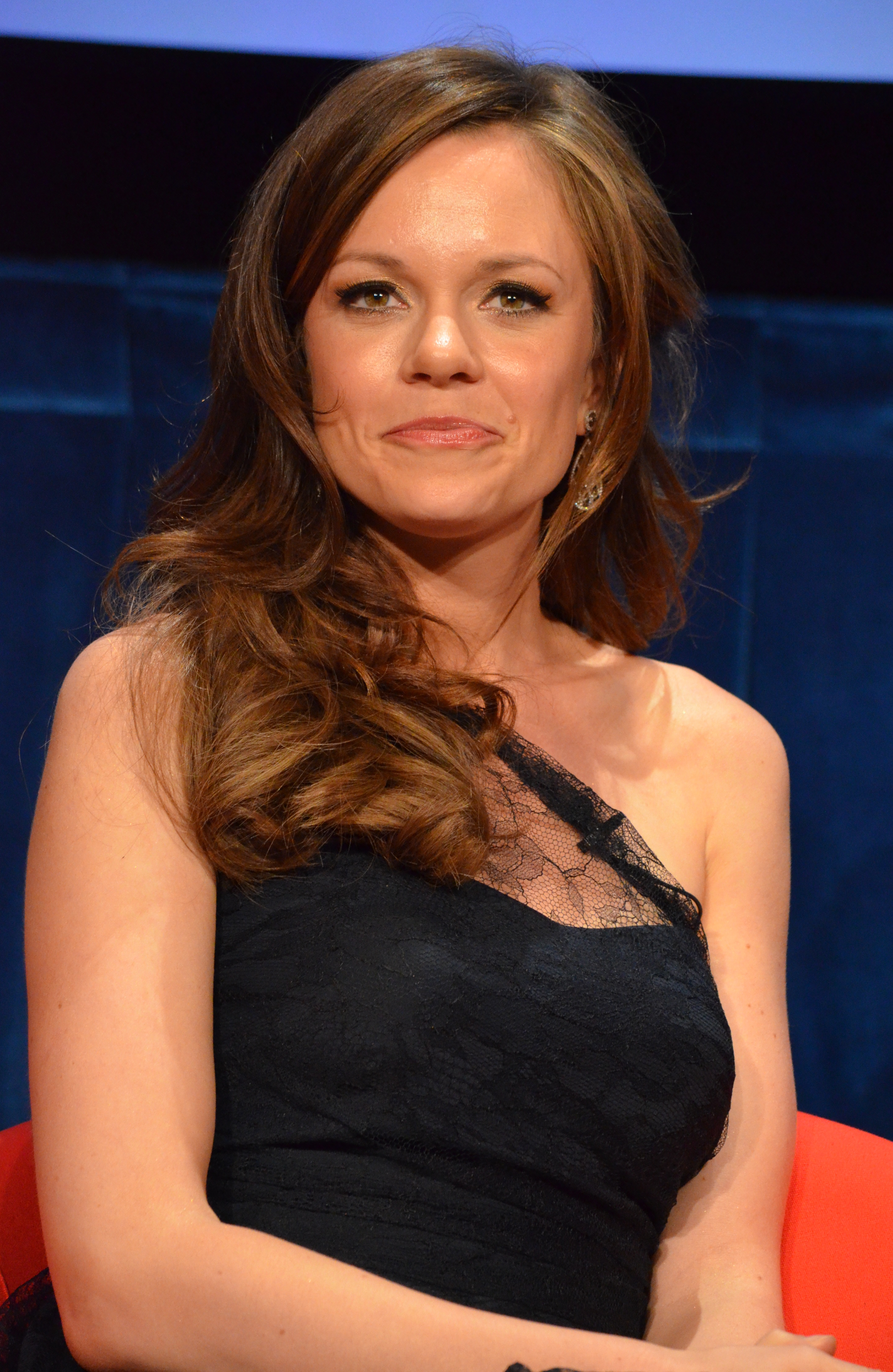 Rachel Boston at the Paley Center, in April 2012